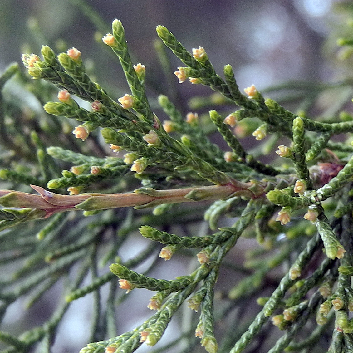 Female strobili of Juniperus virginiana